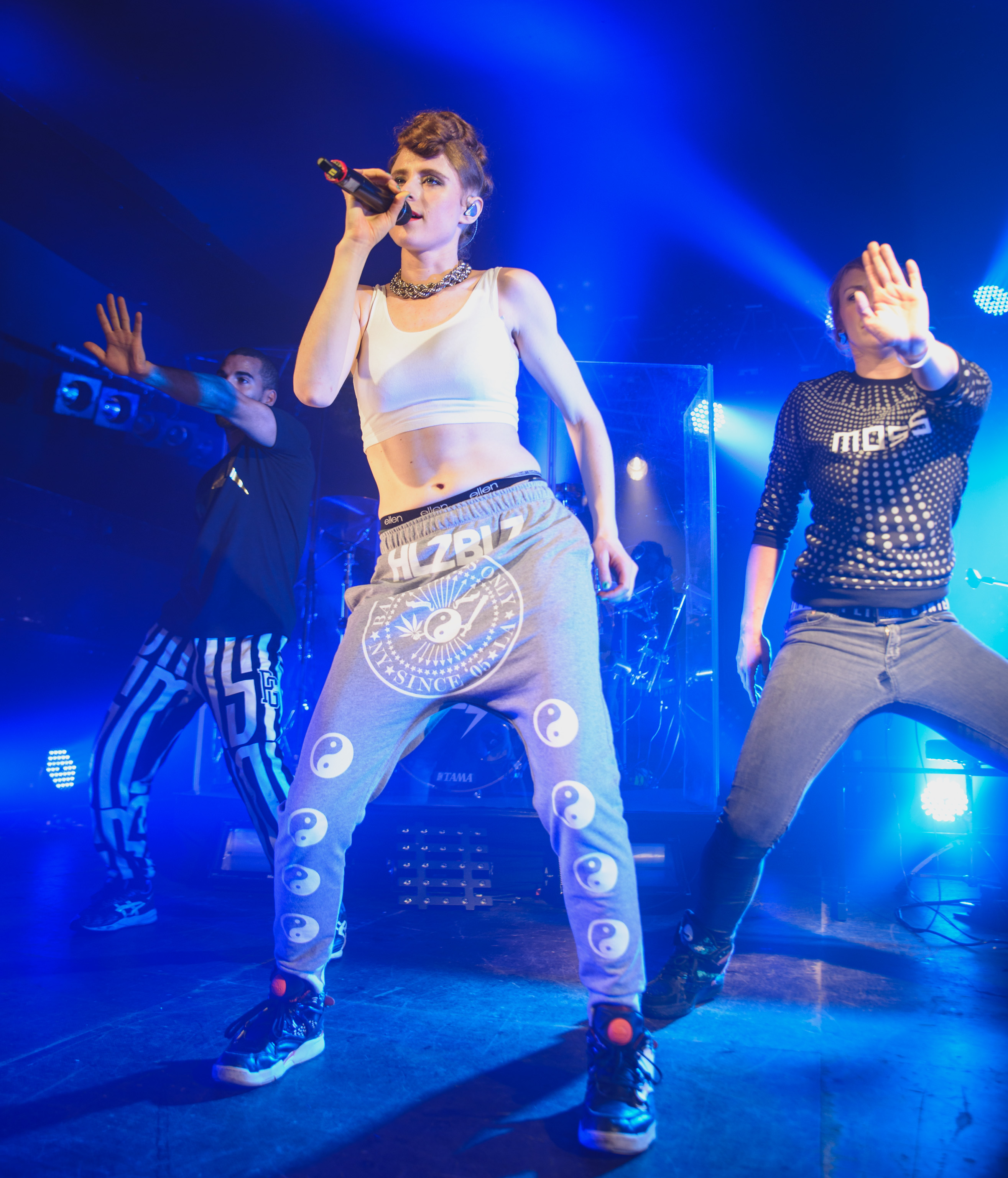 Kiesza in Munich 2015